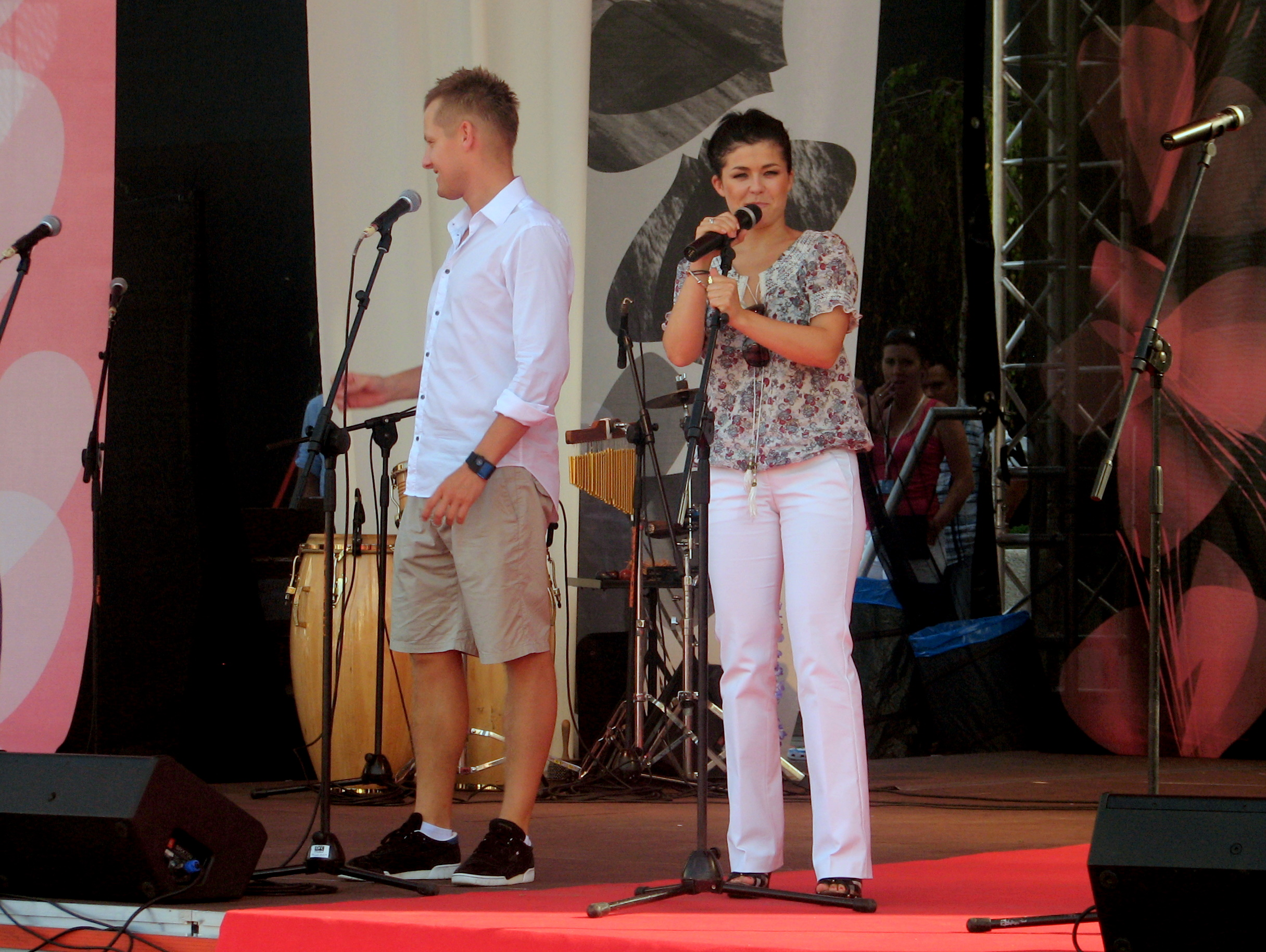 Marcin Mroczek and Katarzyna Cichopek during IV Meeting Of Fans of the TV Series "M jak miłość" in Gdynia 2010. "M jak Miłość" in exact translations: "L as Love".